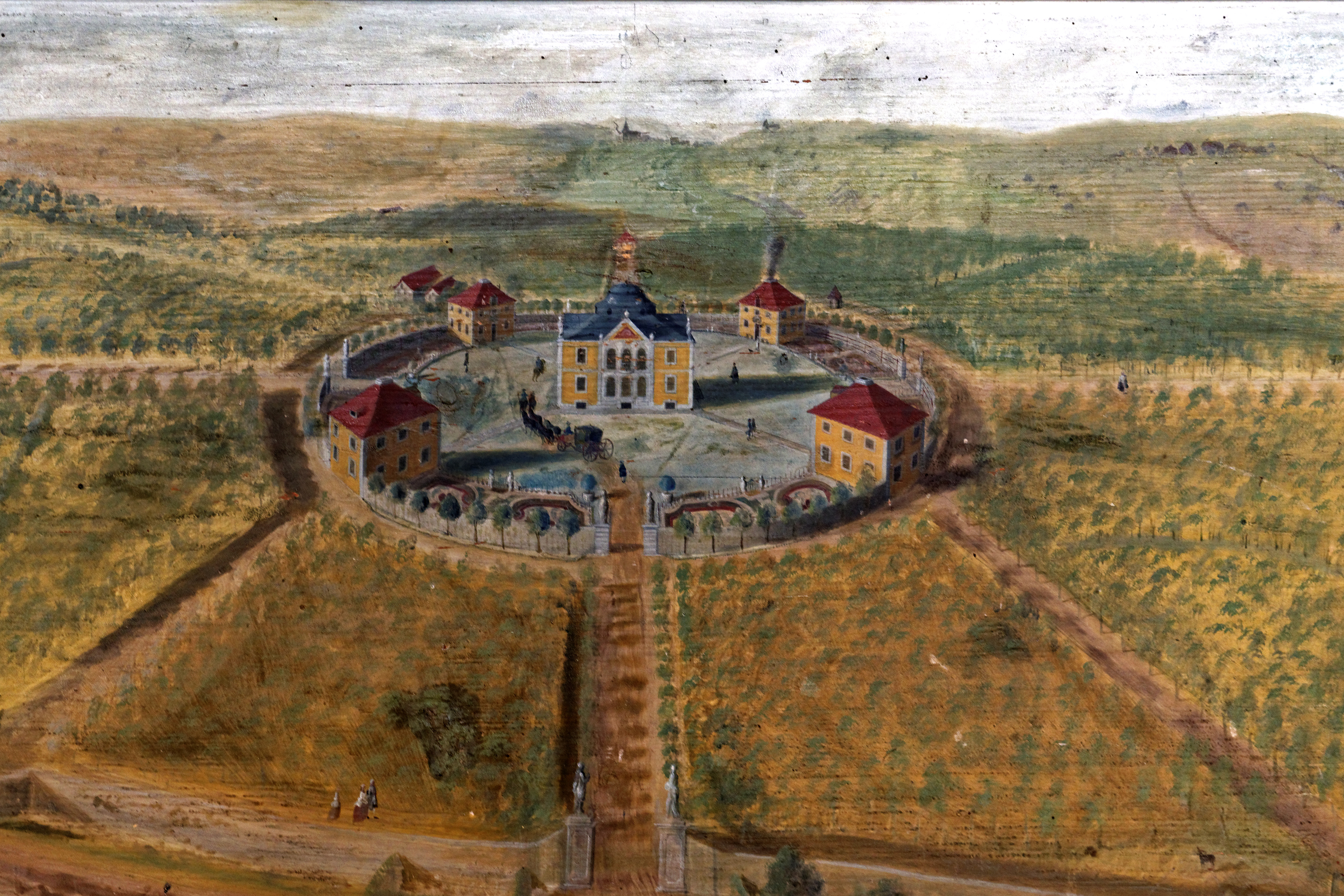 The Karlsberg in Weikersheim.